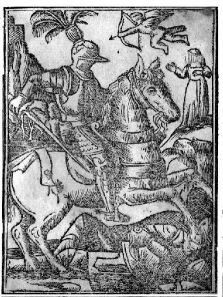 Image from Ariosto's Orlando innamorato